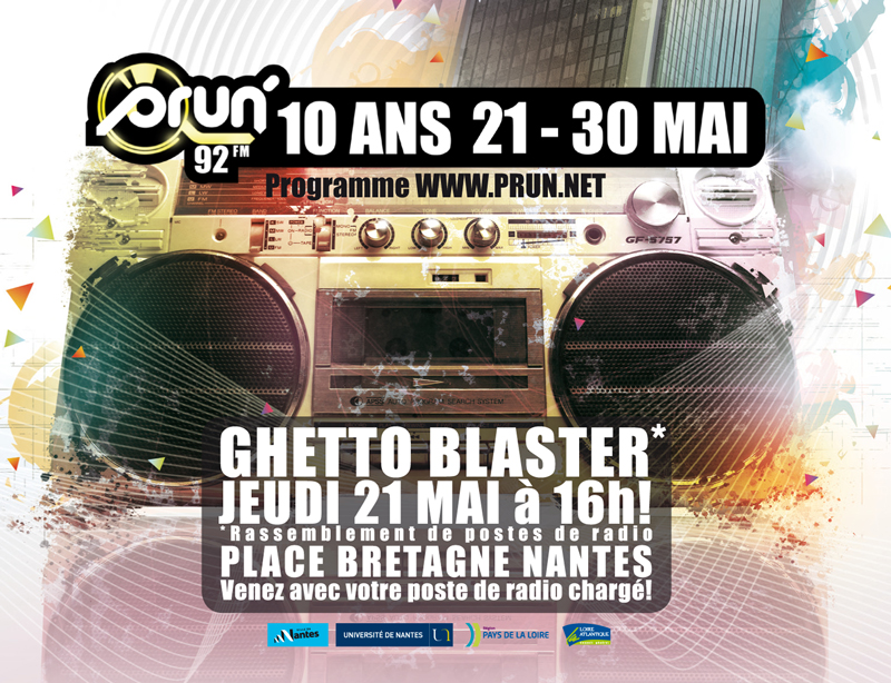 This is the communication made for 10th years of Prun' Radio.